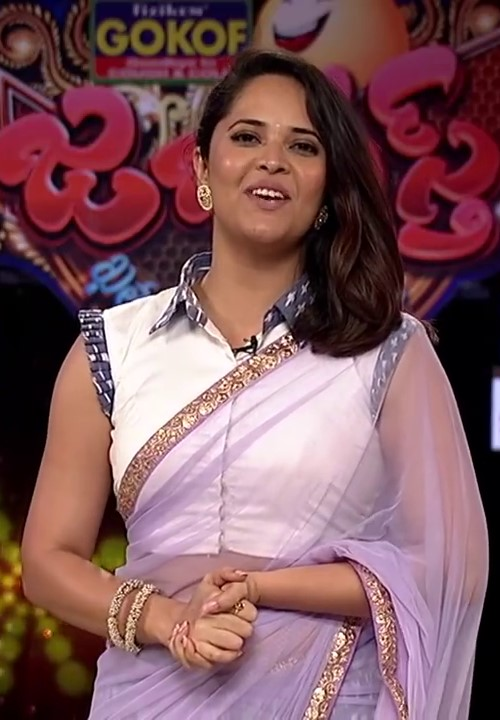 Indian television presenter and film actress Anasuya Bharadwaj on the sets of Jabardasth in August 2018